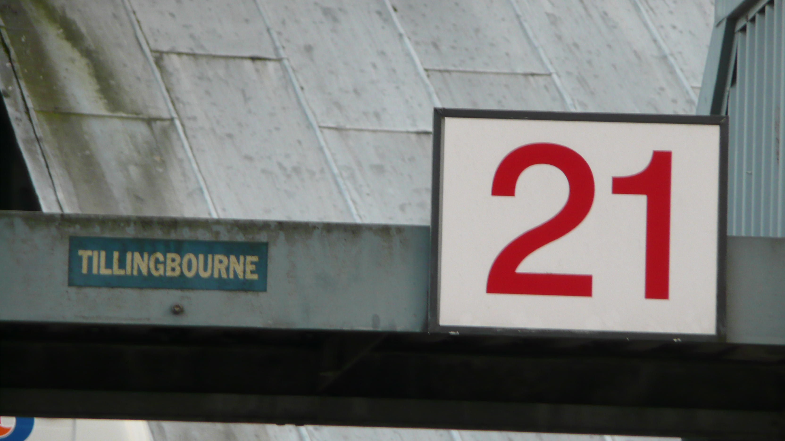 A photo of part of the roof on the Commerical Road side of Guildford bus station. Despite going into receivership in 2001, the logo of former bus company Tillingbourne was still visible on the side of the roof.